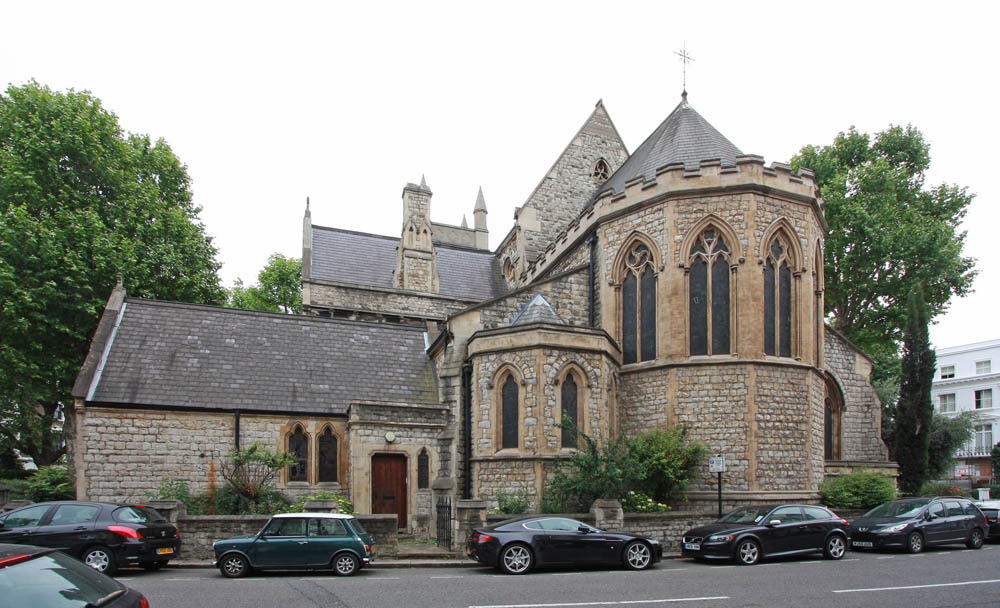 St Stephen's parish church, Westbourne Park, London W2, seen from the west from St Stephen's Crescent